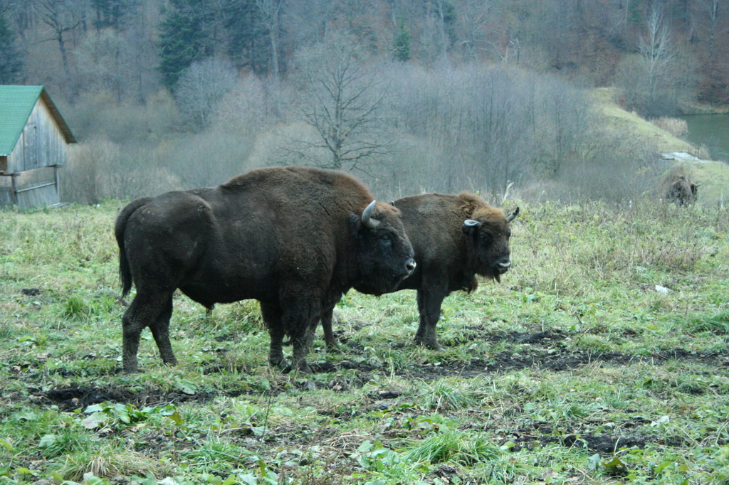 European bisons (Bison bonasus) at Vânători-Neamț Natural Park in Romania